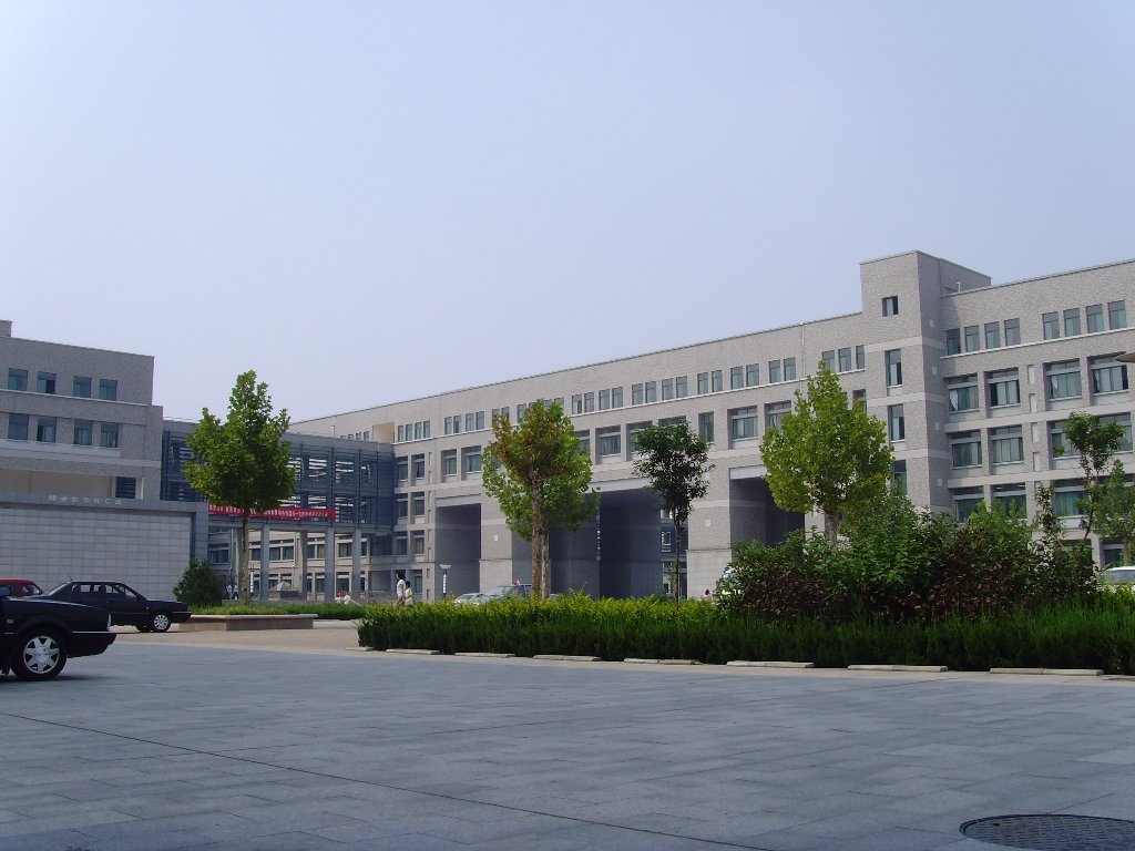 Shandong Normal University Changqing Xiaoqu